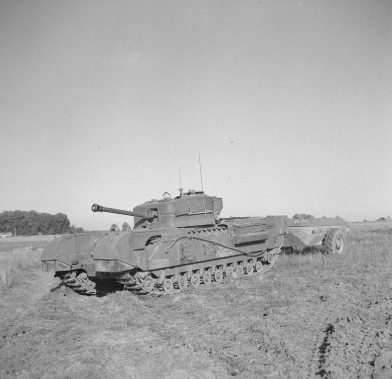 THE BRITISH ARMY IN THE NORMANDY CAMPAIGN 1944. Churchill Crocodile.